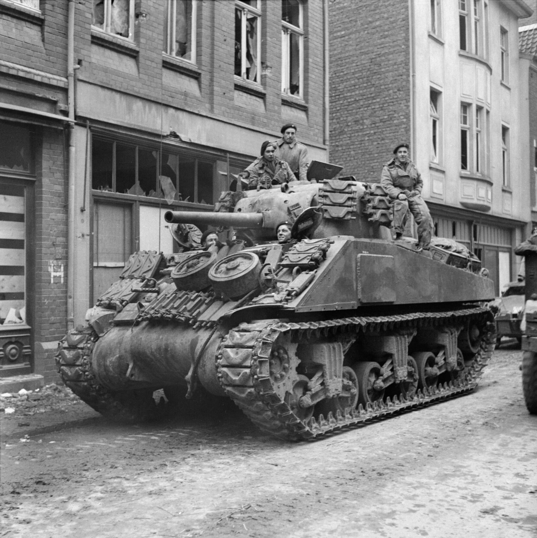 A Sherman tank of 8th Armoured Brigade in Kevelaer, Germany, 4 March 1945. Sherman tank of 8th Armoured Brigade in Kevelaer, 4 March 1945.